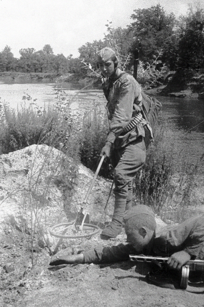 “Soviet sappers”. Soviet sappers defuse explosive devices during the 1941-1945 Great Patriotic War.